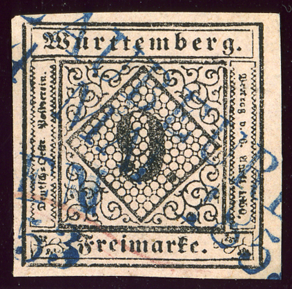 Stamp of the Kingdom of Wurtemberg, first issue 1851, 9 kreuzer, linear blue cancelled at BLAUBEUREN in 1853.